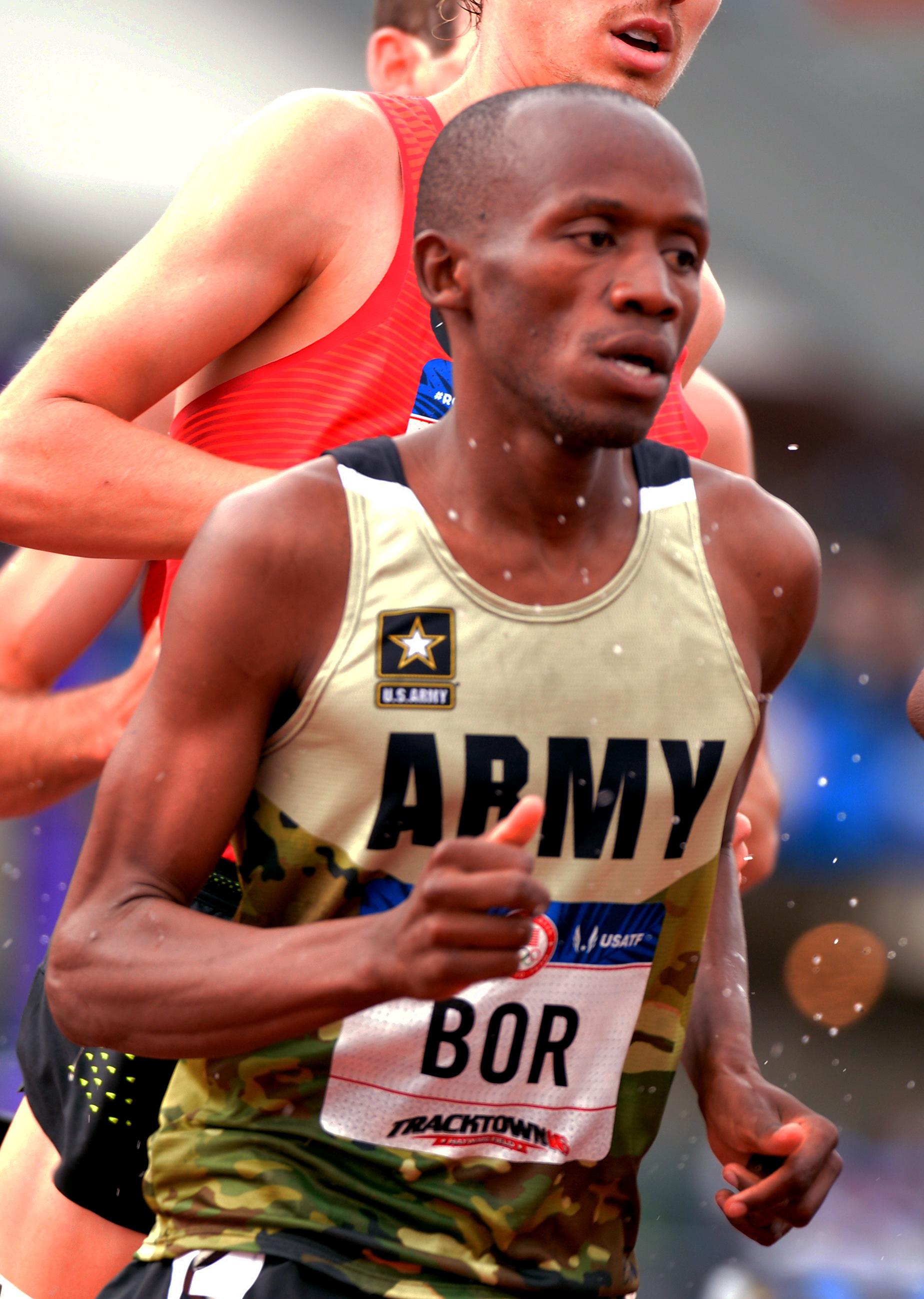 Sgt. Hillary Bor of Fort Carson, Colorado, earns a berth in the Rio Olympic Games in the men’s 3,000-meter steeplechase with a time of 8 minutes 24.10 seconds on July 8 at the 2016 U.S. Olympic Track and Field Team Trials at Eugene, Oregon. U.S. Army photo by Tim Hipps, IMCOM Public Affairs